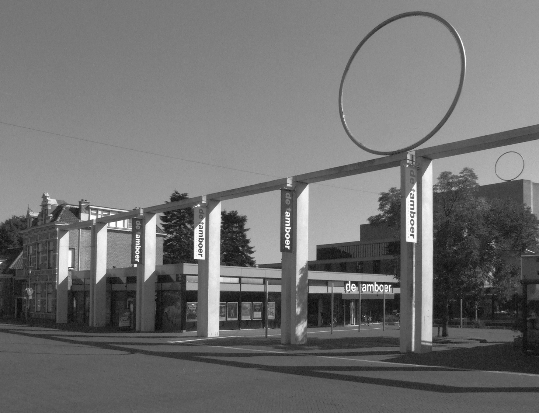 Exterior Cultural Center 'De Tamboer', Hoogeveen (The Netherlands), with new theater and entrance